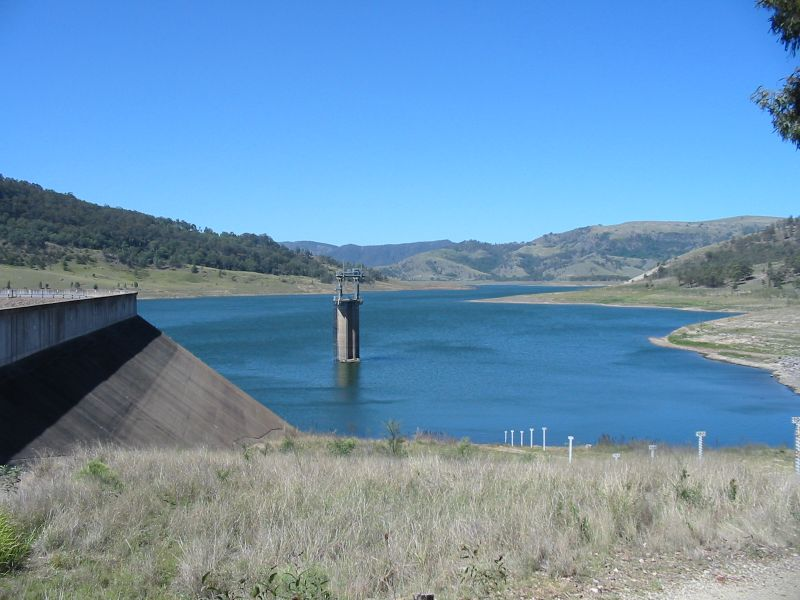 Glennies Creek Dam, New South Wales, Australia. Creates Lake St Claire